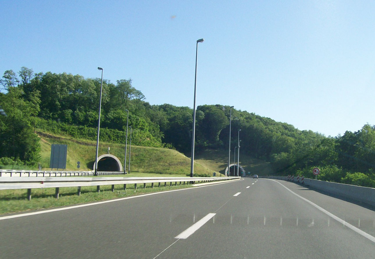 Croatian A4 highway passed Varaždinske Toplice exit